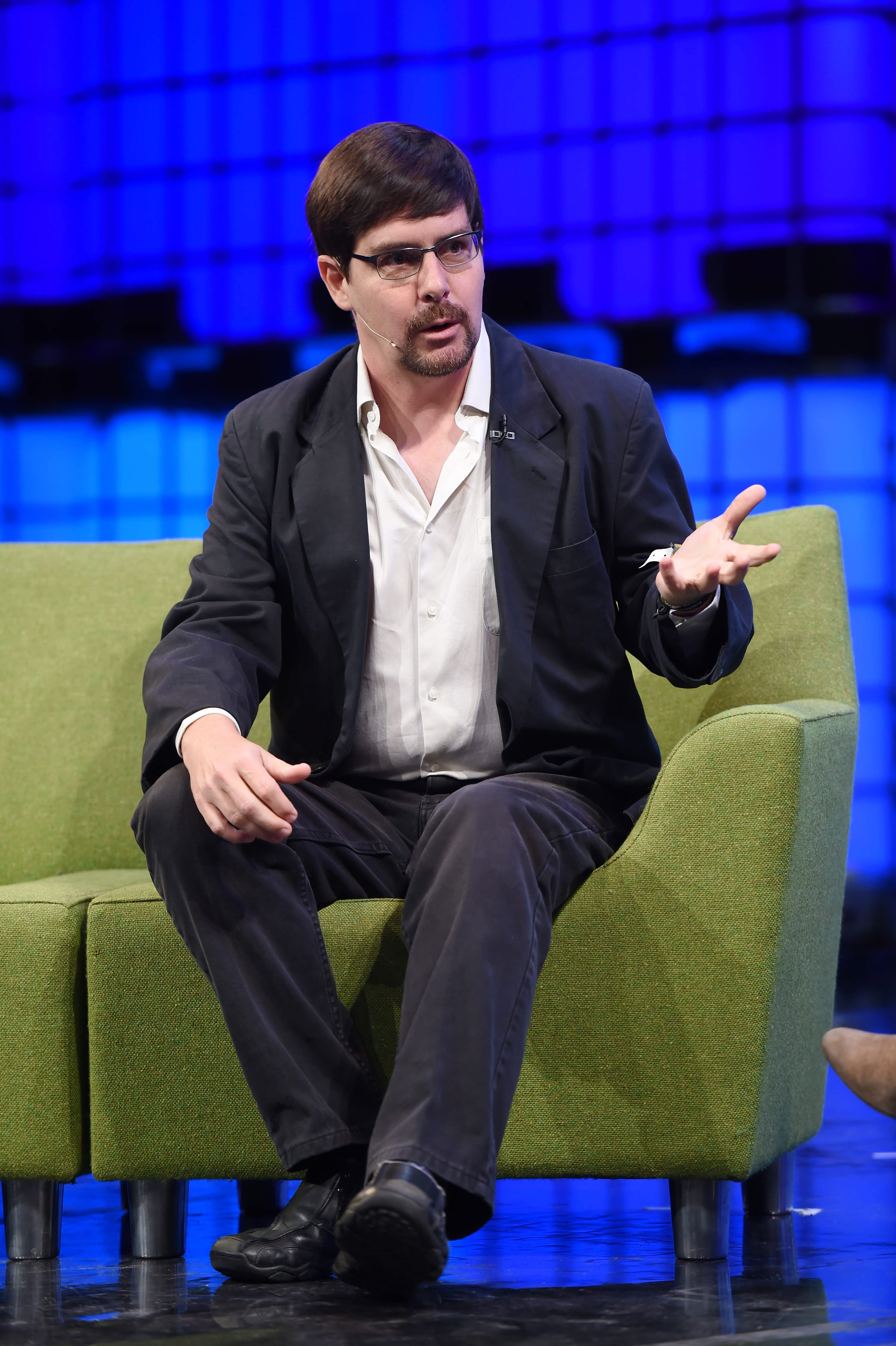 Gavin Andresen, Chief Scientist, Bitcoin Foundation, on the centre stage during Day 3 of the 2014 Web Summit in the RDS, Dublin, Ireland.